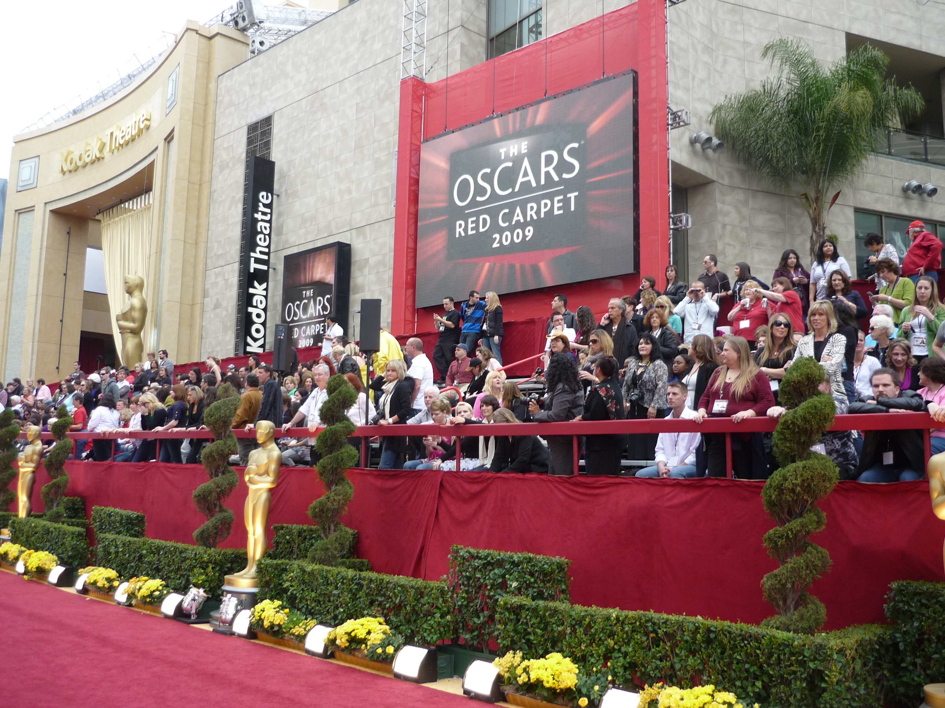 Red carpet at 81st Annual Academy Awards in Kodak Theatre, Los Angeles.